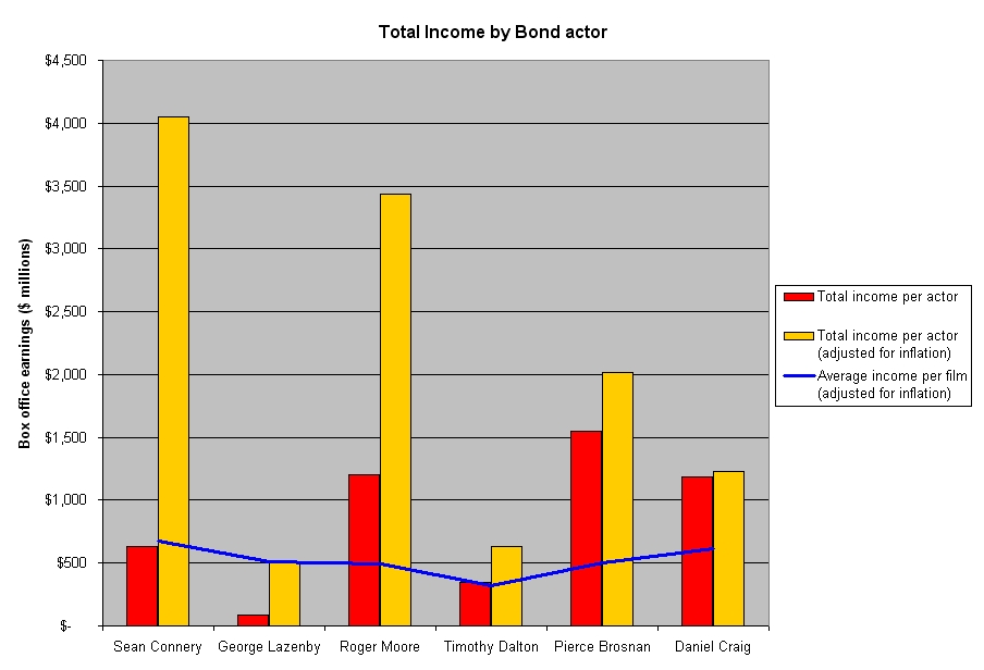 This graph is a side-by-side comparison of the total gross income and average income per film generated by different actors in the most widely recognized (EON Productions) James Bond films. The total box office and total adjusted box office totals are taken from the James Bond films Wikipedia article. Covers up to and includes Casino Royale (Daniel Craig). This graph is modeled on the previous work by Jmichael9870.